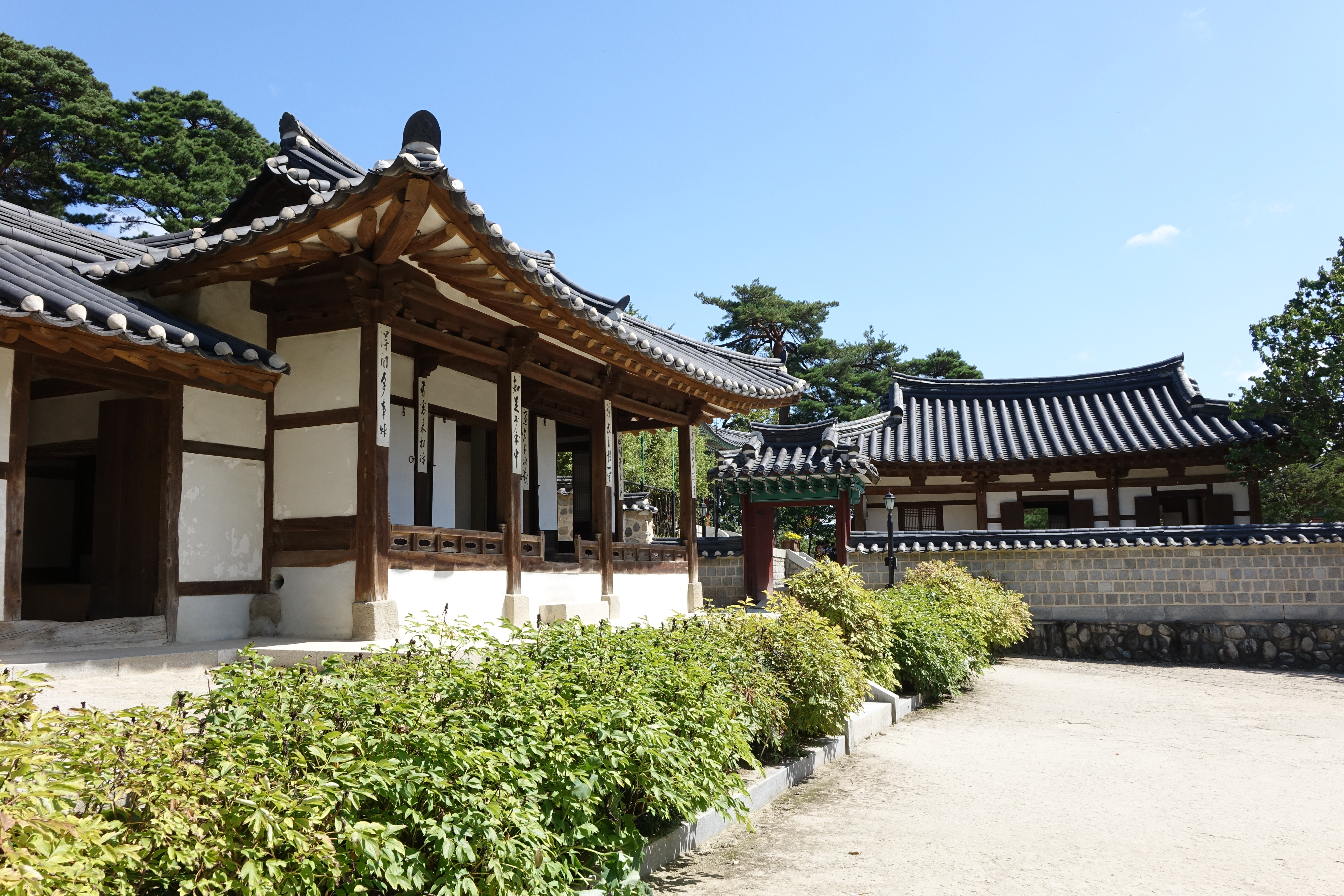 Ojukheon, Sept., 2019